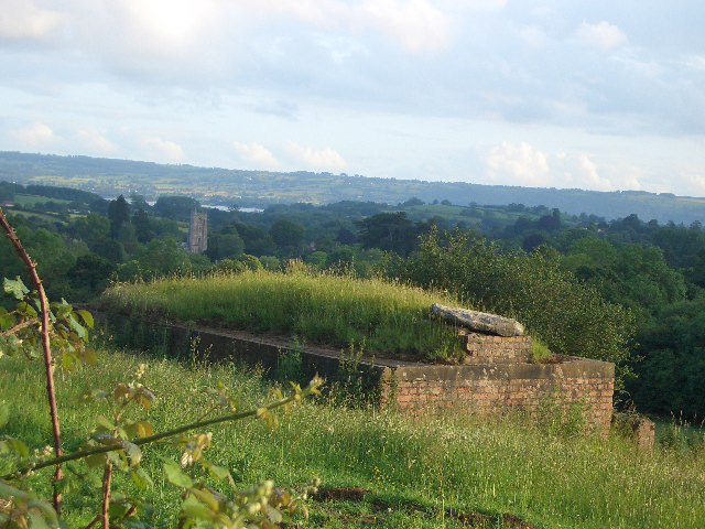 Pill box built in about 1940 north east of Chew Magna, Somerset to house RAF staff operating the decoy fires intended to deflect enemy bomber aircraft from bombing Bristol.